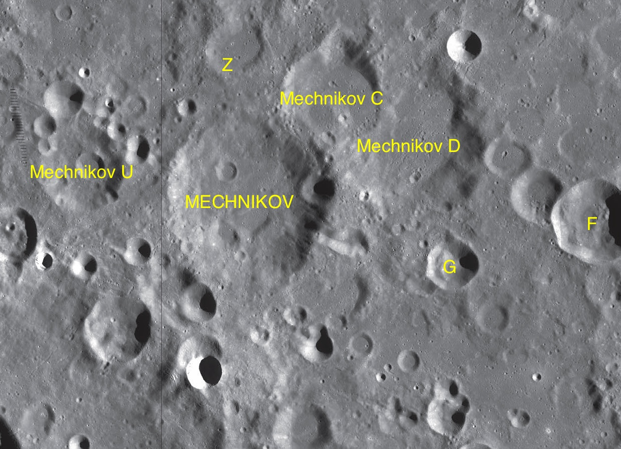 Parts of the charts LAC-87, LAC-88 used for the presentation